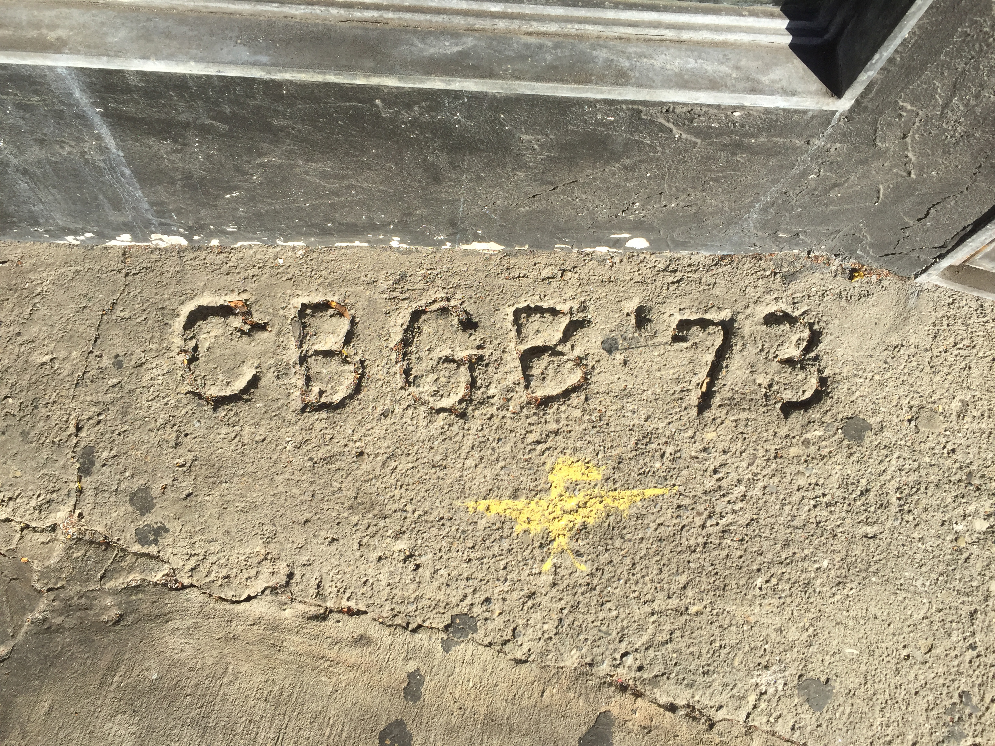 CBGB '73 inscription in the concrete sidewalk in front of the CBGB music club, 315 Bowery Street, Manhattan, New York City.